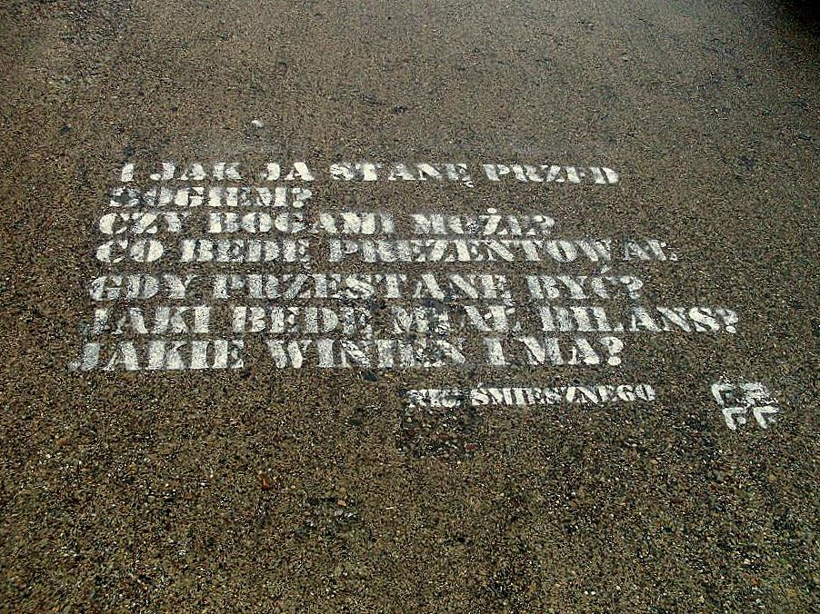 Quotation from film 'Nothing Funny' advertising XXXIV Polish Film Festival in Gdynia 2009. This photo was made in Bulwar Nadmorski few weeks after the entertainment.